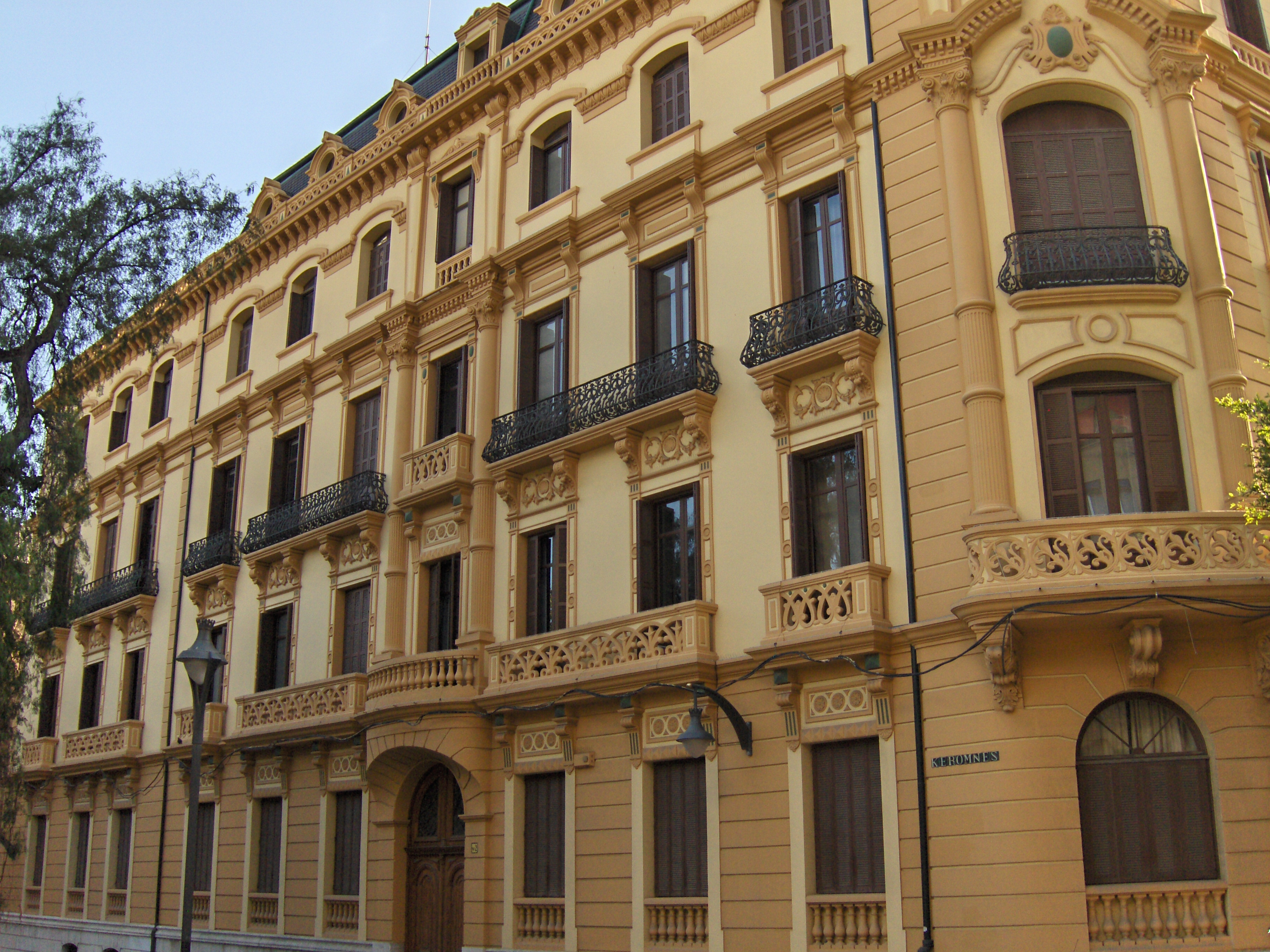 Palacio de la Tinta, Málaga, Spain.